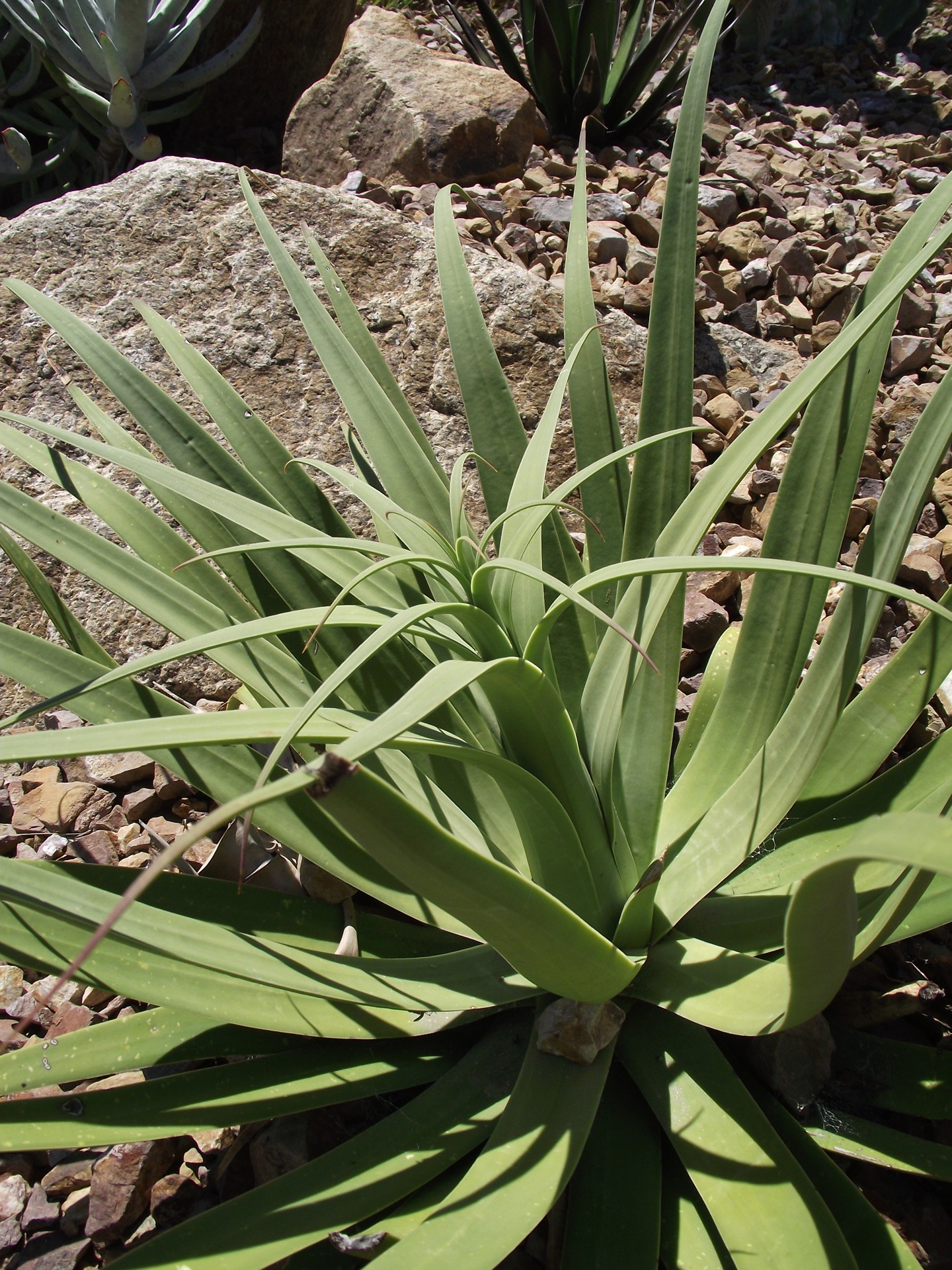 Agave bracteosa — Spider agave. At the San Diego Botanic Garden, Encinitas, California. Identified by sign.